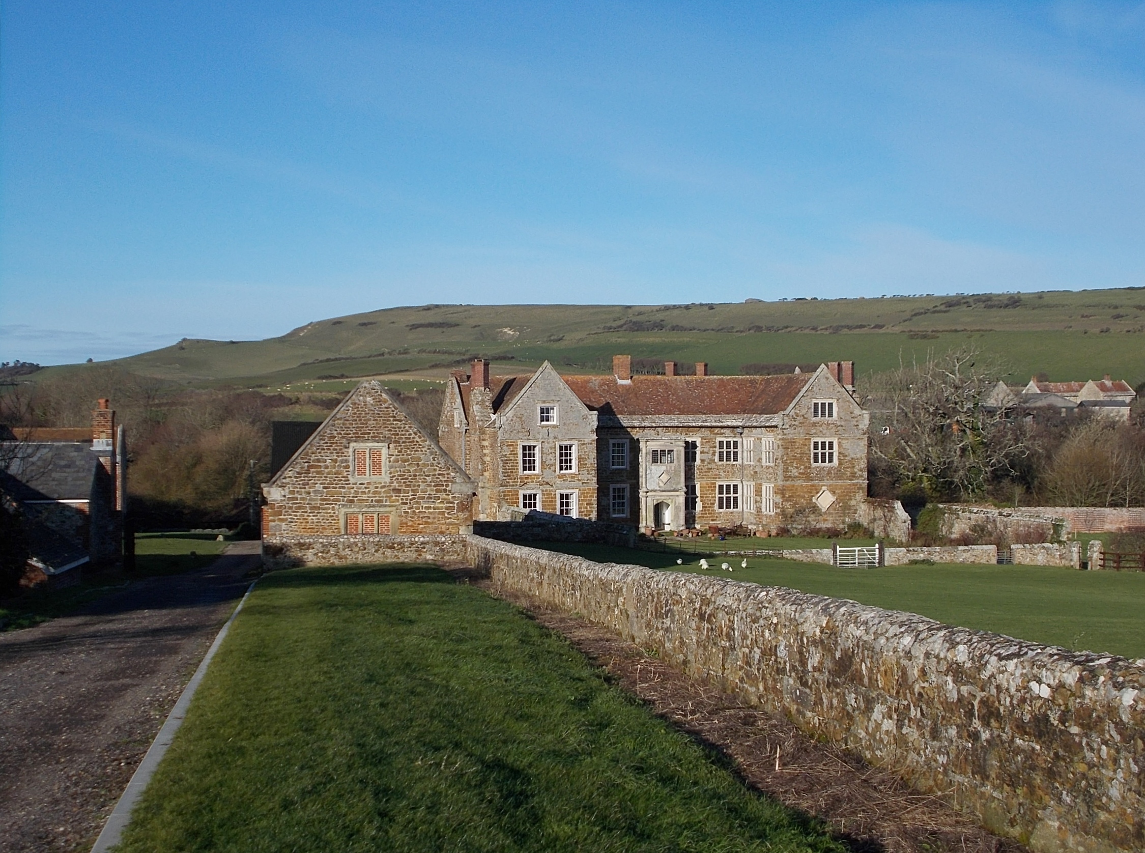 Wolverton Manor, near Shorwell, Isle of Wight, UK